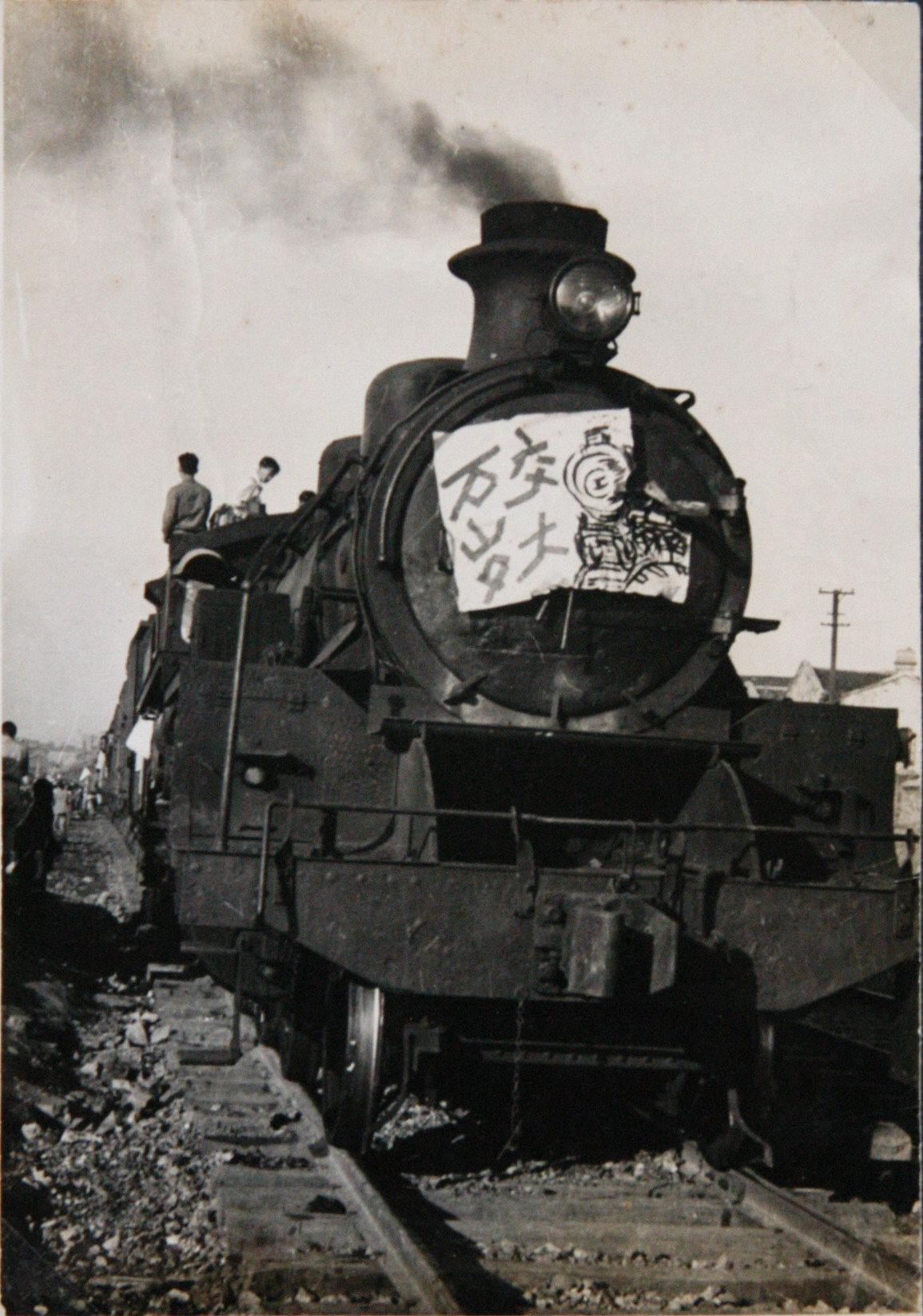 Students of National Chiao Tung University drove a locomotive as to protest in Nanking in 1947